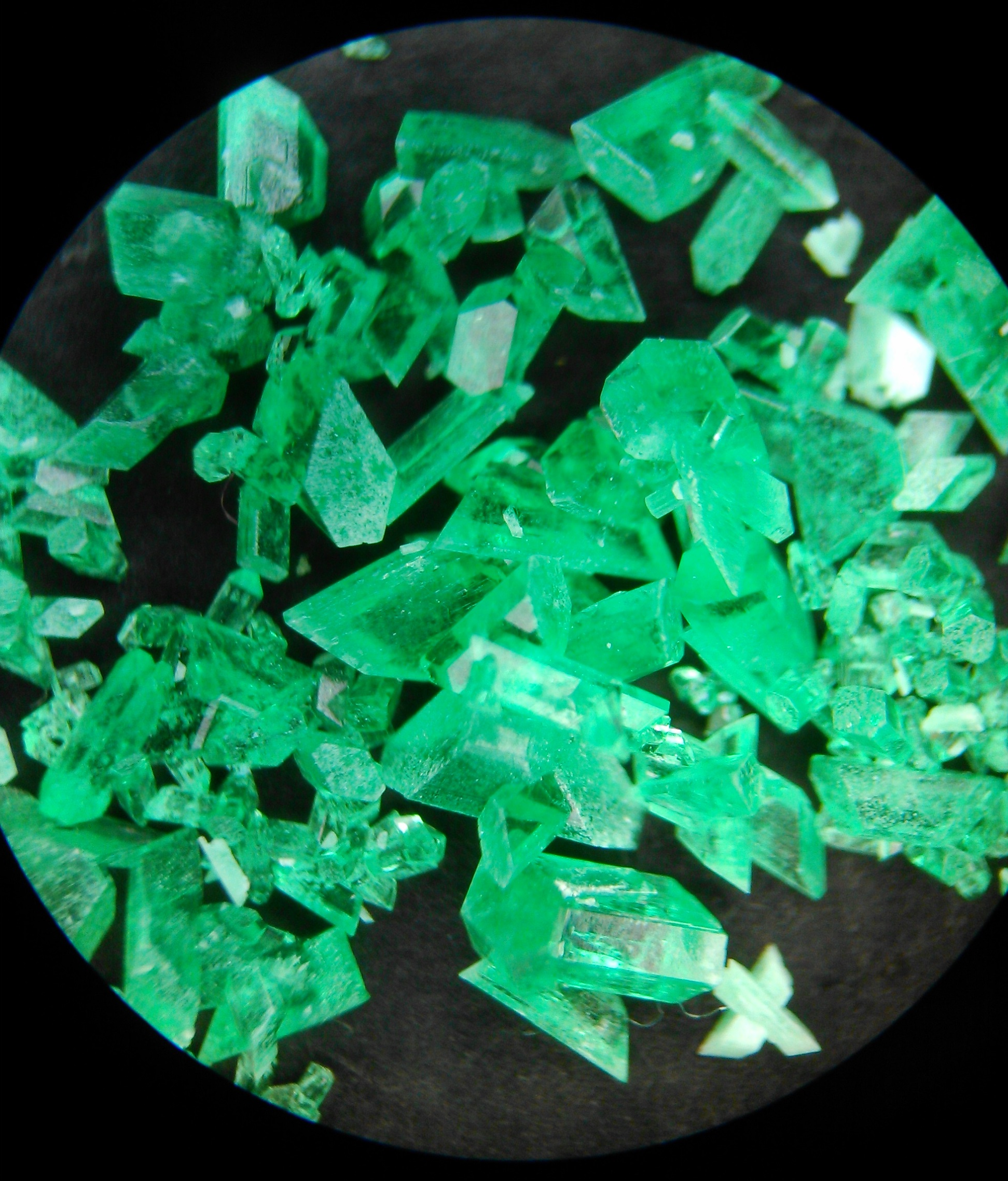 Hydrated crystals of nickel phosphate grown on the surface of pregnant solution containing just-precipitated amorphous product. Time elapsed - circa two weeks. Magnification 20X, FOV 10 mm.